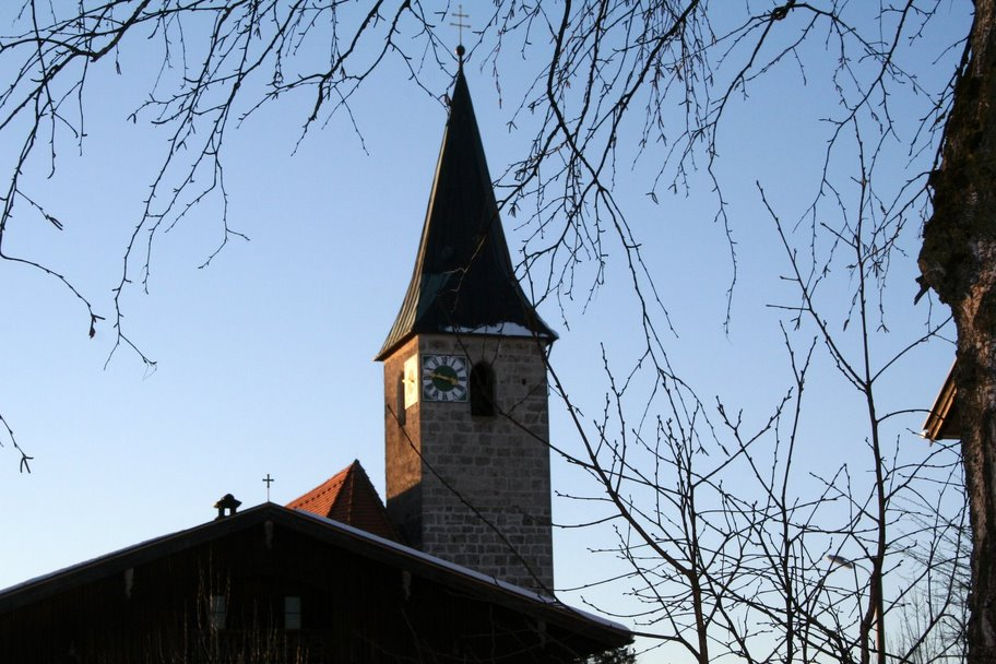 Hechenberg